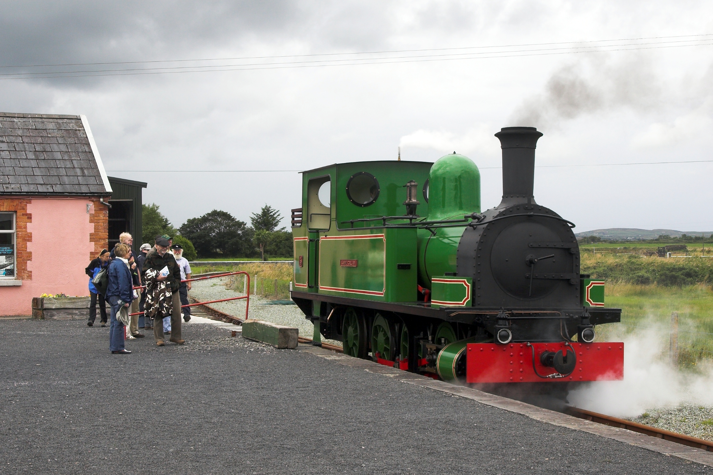 The West Clare Railway's Slieve Callan steaming at the Kilkee branch platform at Moyasta station.